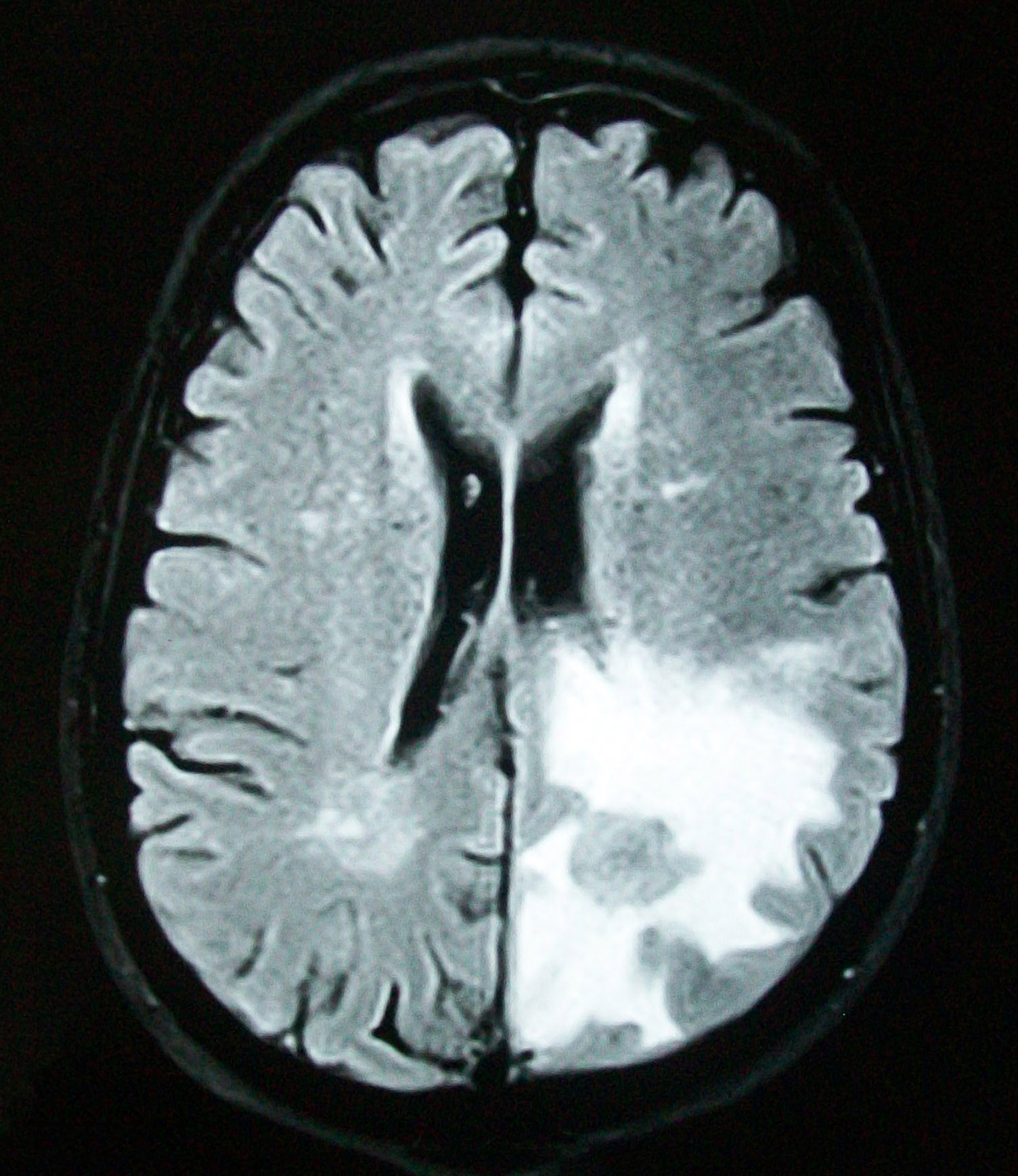 Space-occupying lesion correlating with left temporo-parietal metastatic infiltration associated with peritumoral edema. This is an edited version of the source image used in the "Anatomist" app and shared here under the terms of the source image's Share Alike Creative Commons license.